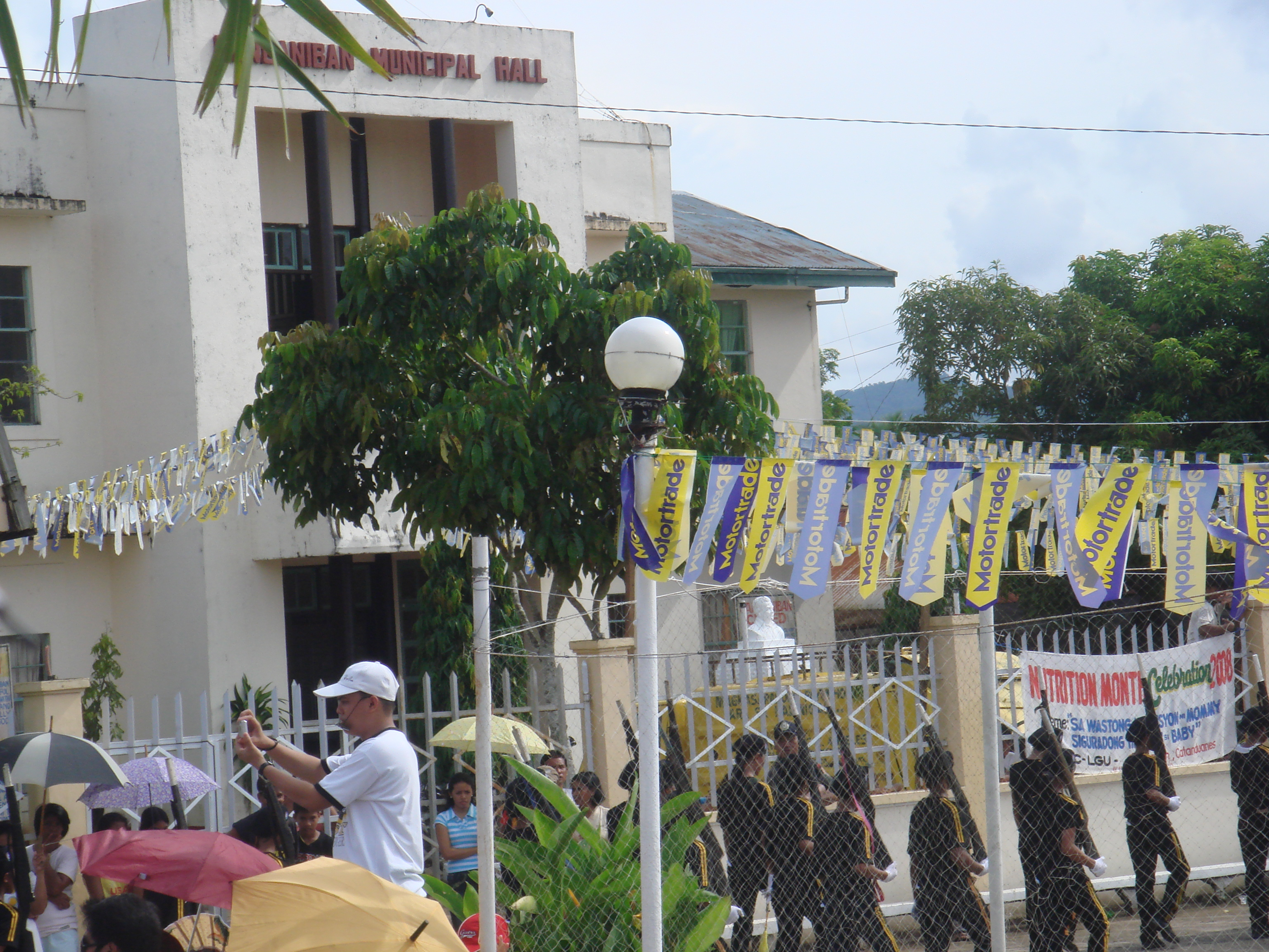 Taken during the town fiesta civic parade.